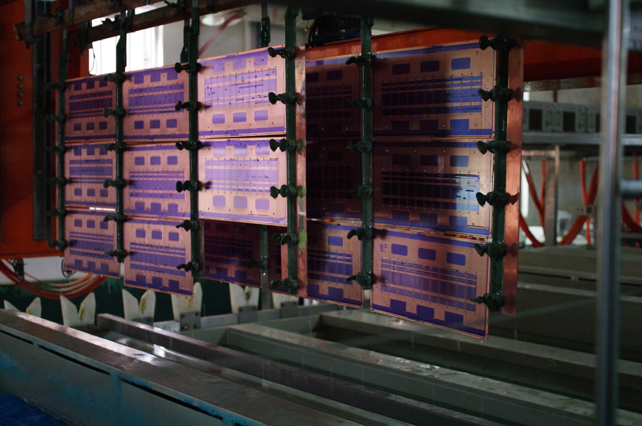 in-process PCBs hanging in a computer controlled copper electroplating machine